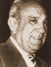 Uruguayan writer, screenwriter and journalist Borocotó (Ricardo Lorenzo Rodríguez), 1902-1964.